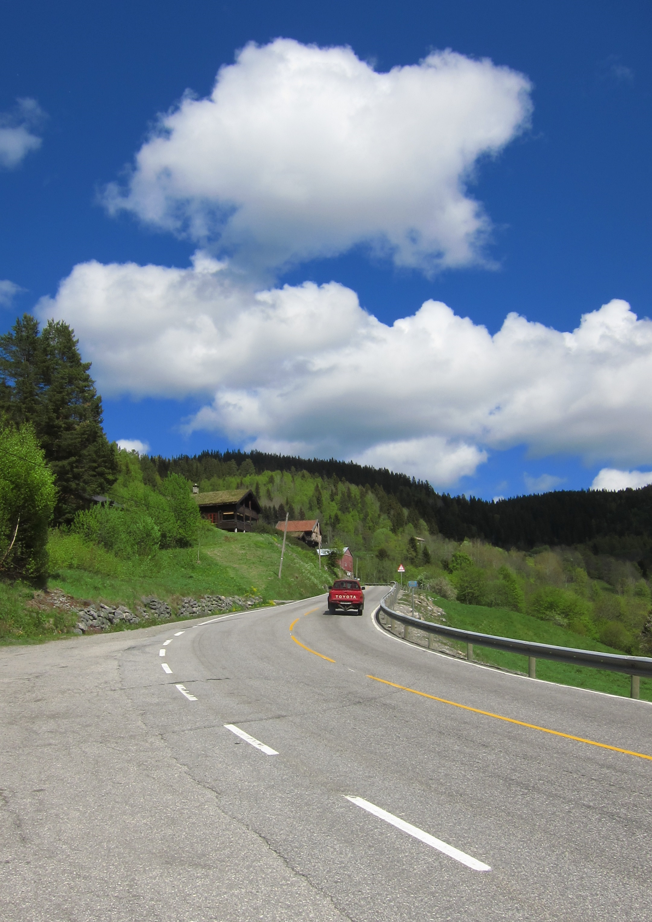 Road E134 at Flatdal (hills to Hjartdal - Nutheimskleivene), Telemark